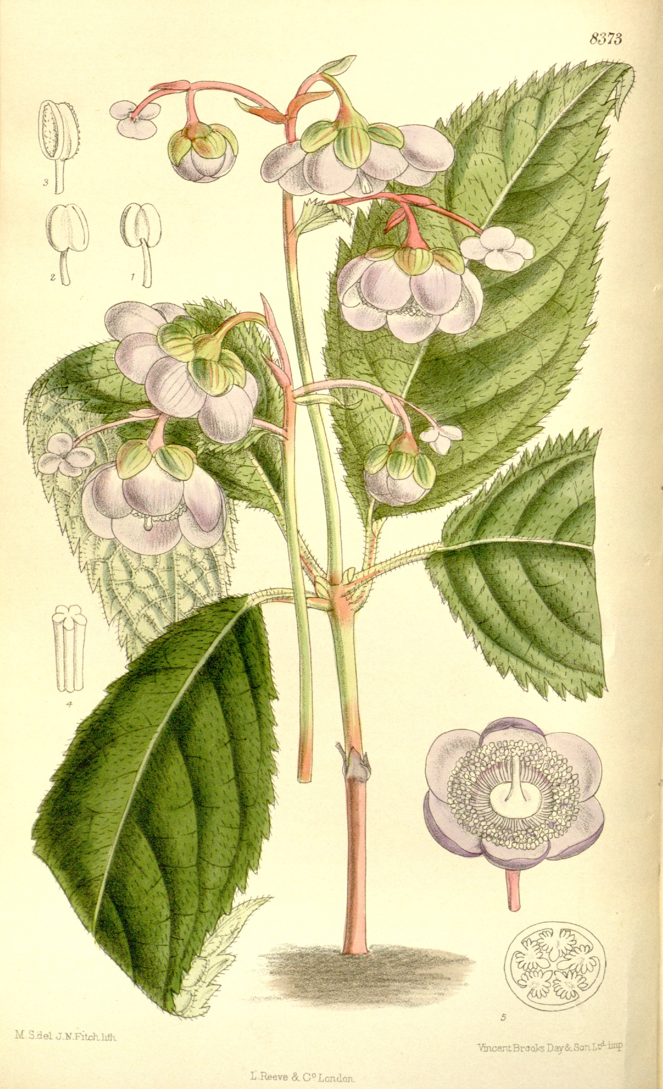 Deinanthe caerulea, Hydrangeaceae